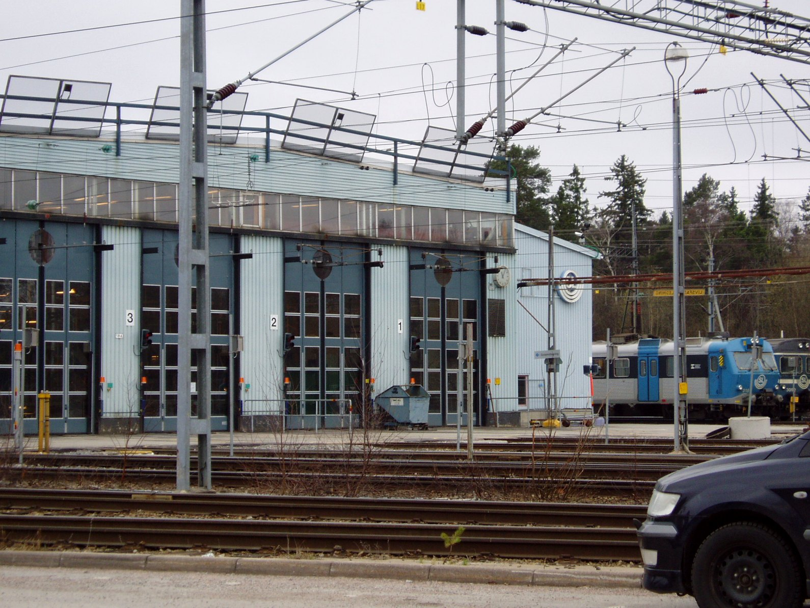 Depot for locomotive, Älvsjö, Stockholm, Sweden